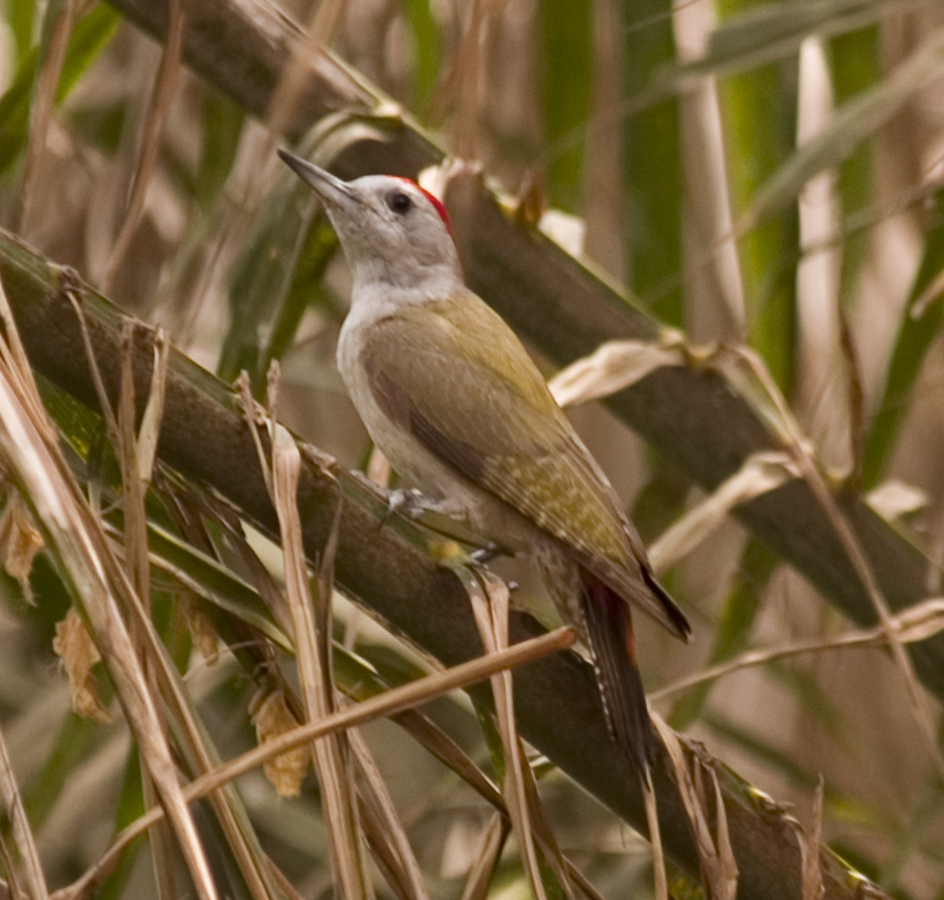 Dendropicos goertae (syn. Mesopicos goertae). Hann park, near Dakar, Senegal. Thanks to Martin for the ID.